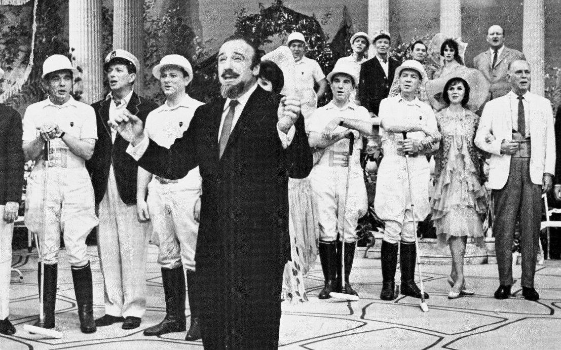 Postcard photo from the television program Sing Along With Mitch. Pictured are Mitch Miller and his Sing Along Gang as they appeared on the show.